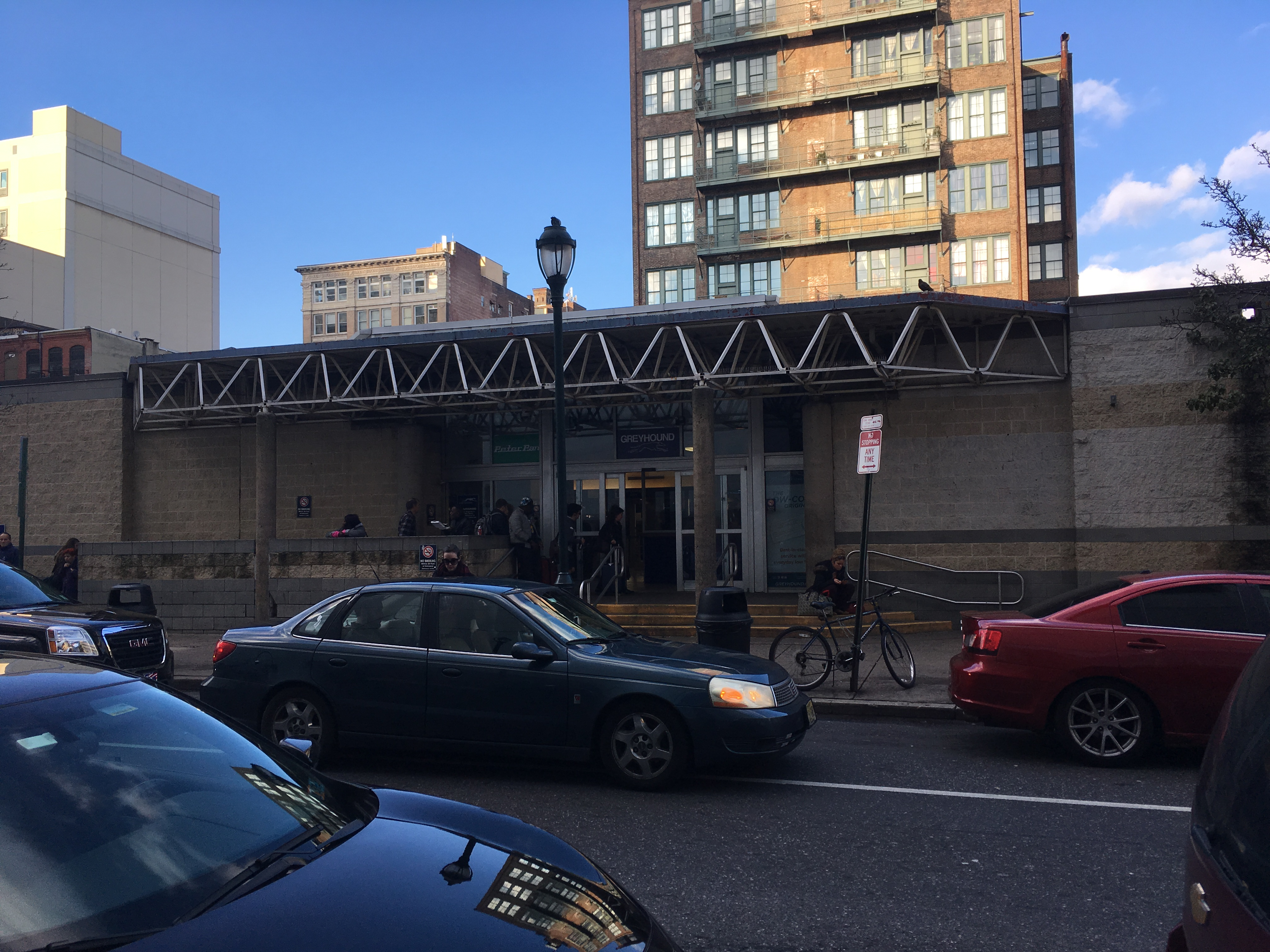 The Filbert Street entrance to the Philadelphia Greyhound Terminal in Philadelphia, Pennsylvania